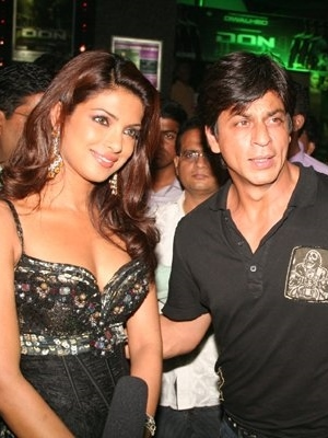 Shahrukh Khan with co-star Priyanka Chopra at the premiere of their film Don: The chase continues (2006)